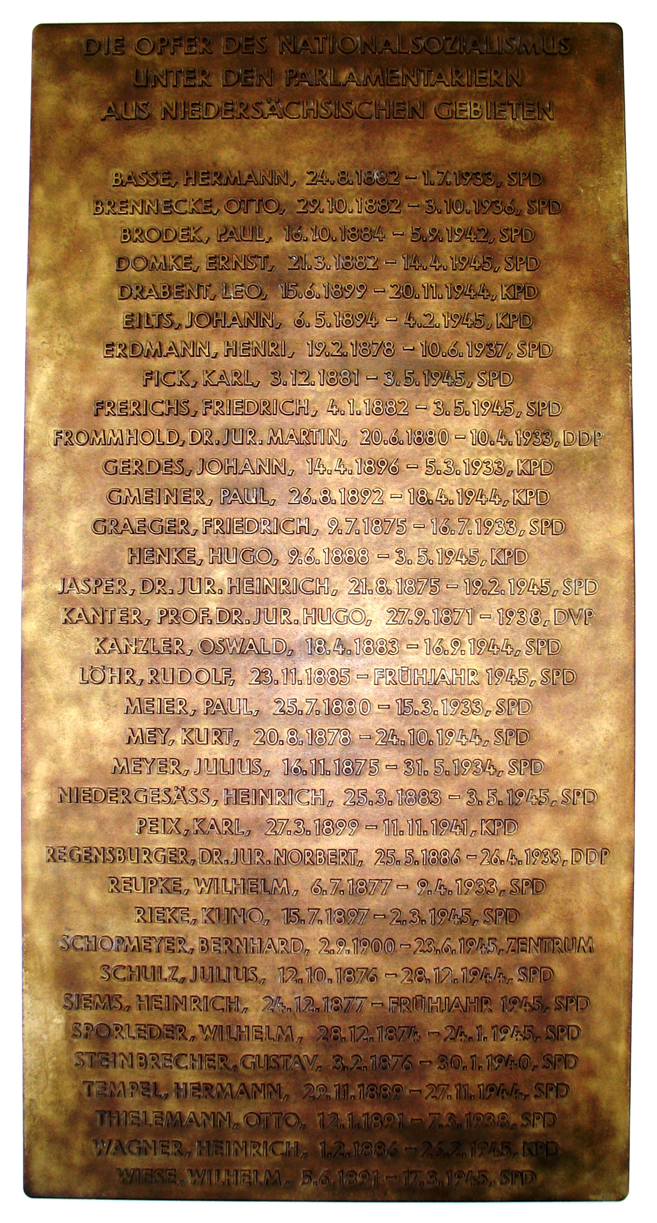 2007 Gedenktafel vom Landtag Niedersachsen im Leineschloss, Die Opfer des Nationalsozialismus unter den Parlamentariern aus niedersächsischen Gebieten This is a derivative image. I have adjusted the contrast to try and make the inscriptions of the names easier to read.